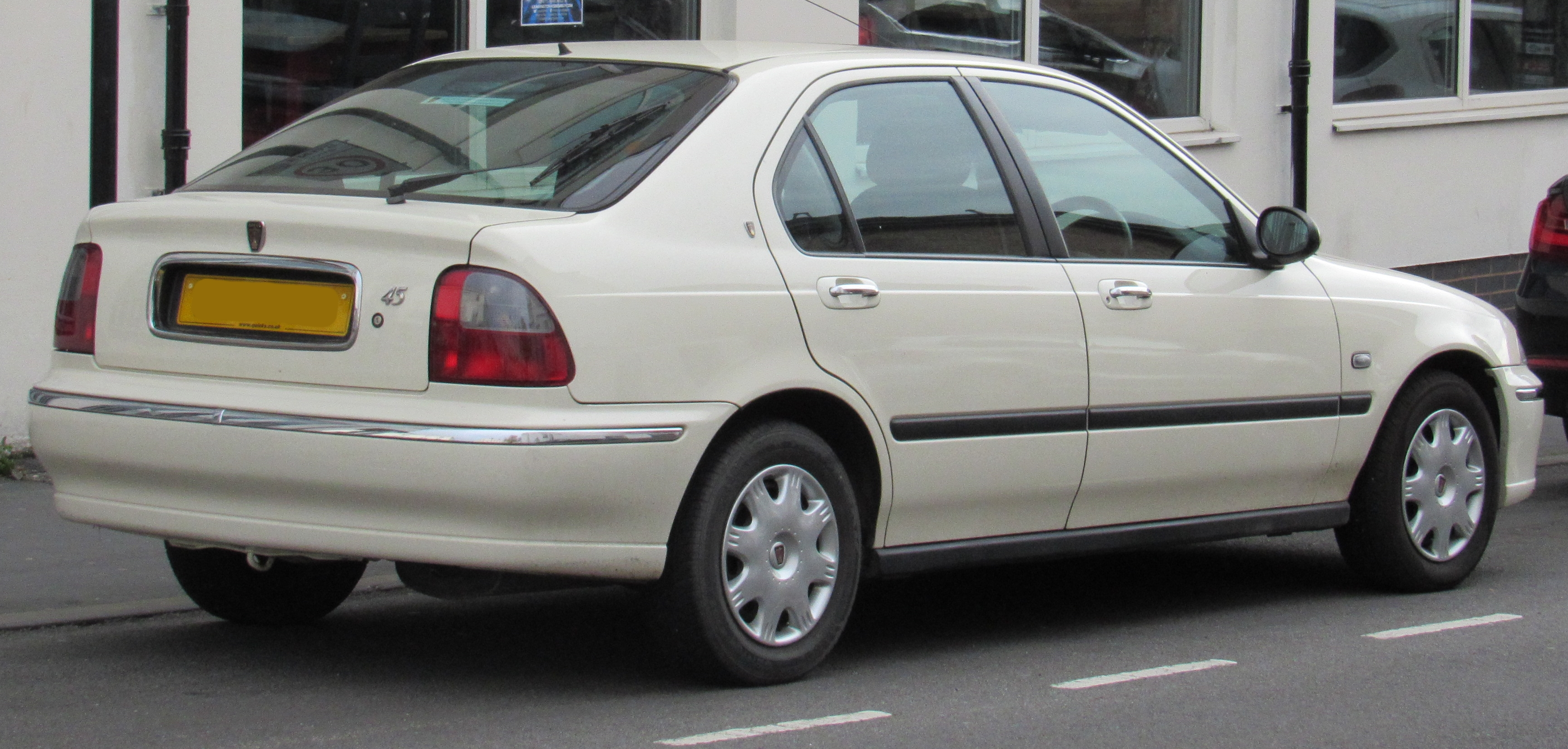 2001 Rover 45 IL 16V 1.6 Rear